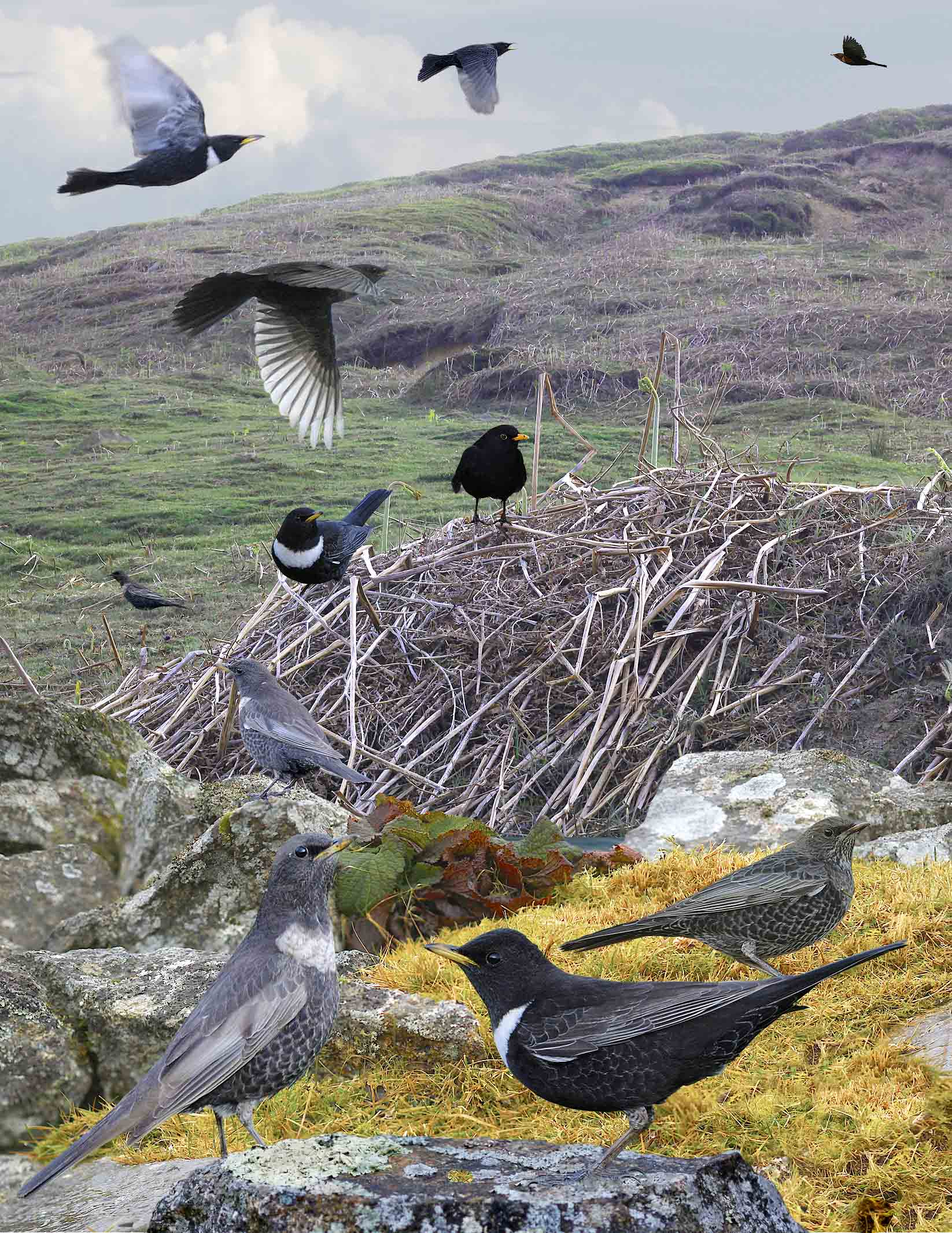 Ring Ouzel from the Crossley ID Guide Britain and Ireland